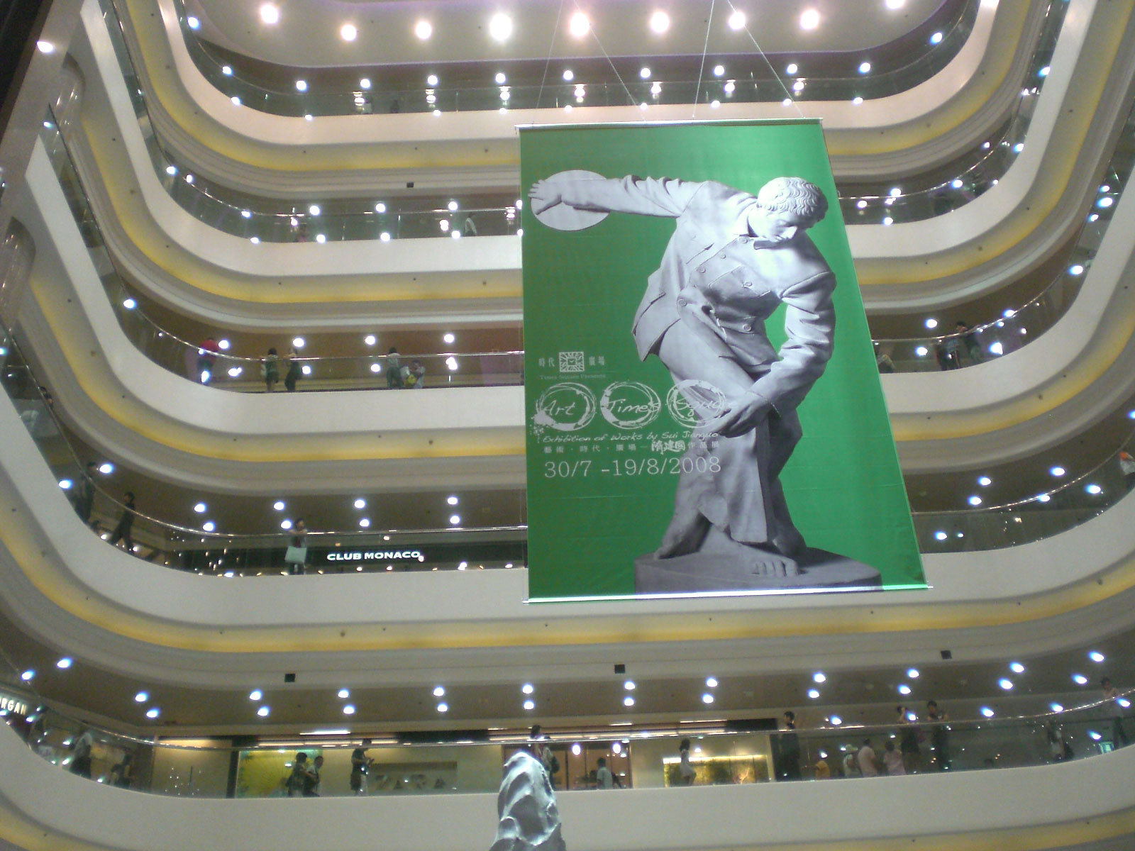 香港時代廣場當代藝術展覽2008年8月, Sui Jianguo 隋建國Art Exhibition in 2008